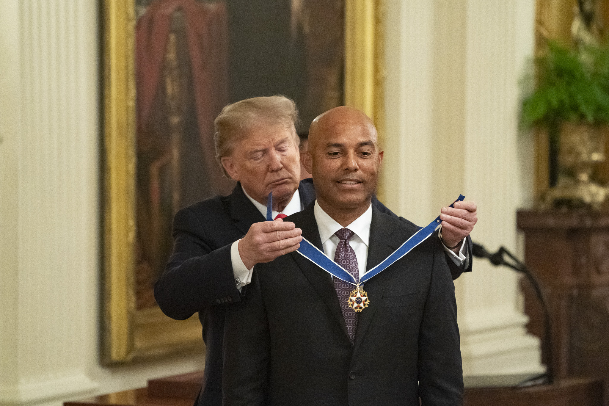 President Donald J. Trump presents the Presidential Medal of Freedom to Mariano Rivera Monday, Sept. 16, 2019, in the East Room of the White House. (Official White House Photo by Joyce N. Boghosian)